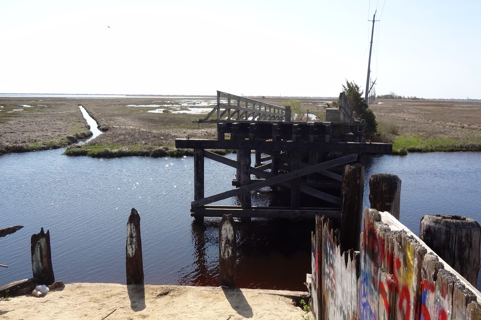 View of Stafford Avenue Bridge in Manahawkin Wildlife Management Area.